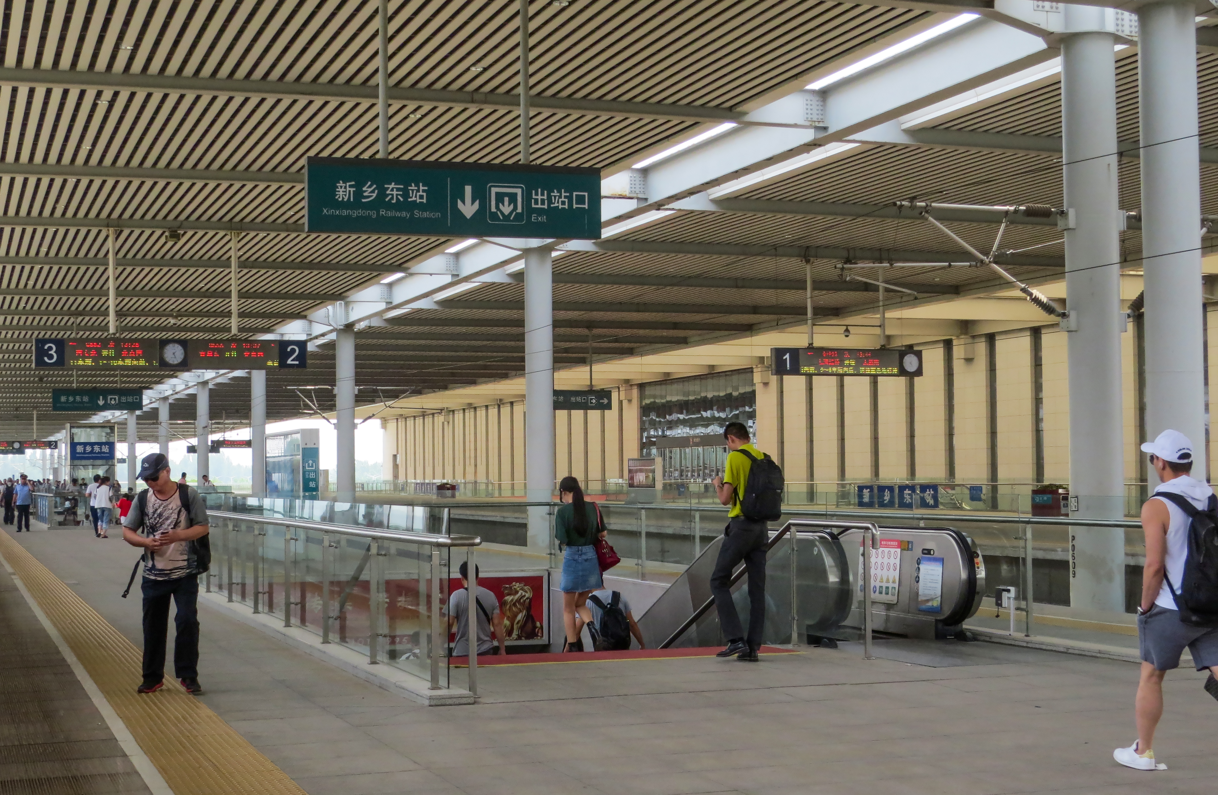 Taken during the stopover of G662 at "NY East". New York is jokingly called "新乡" by some people in China, and Xinxiang got a new nickname... How did the Yorkers feel?